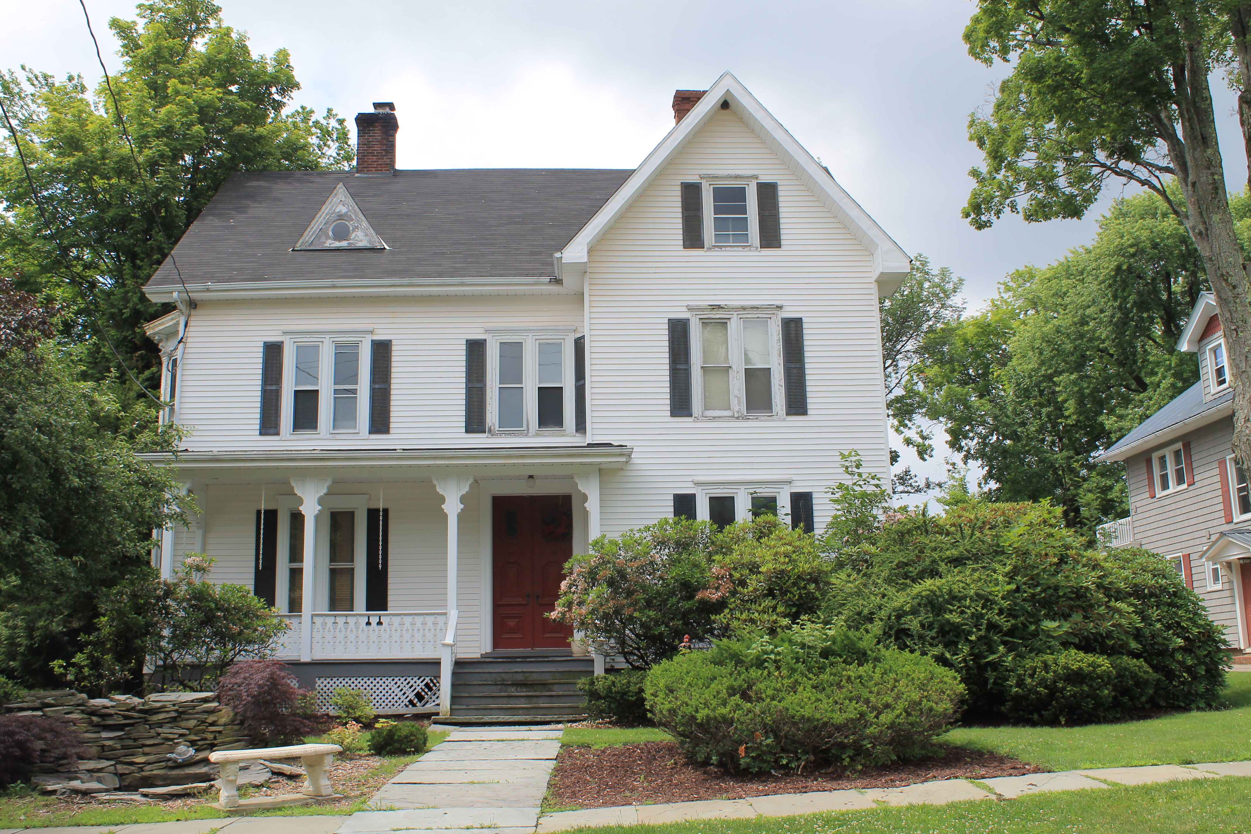 Picture Bennette House